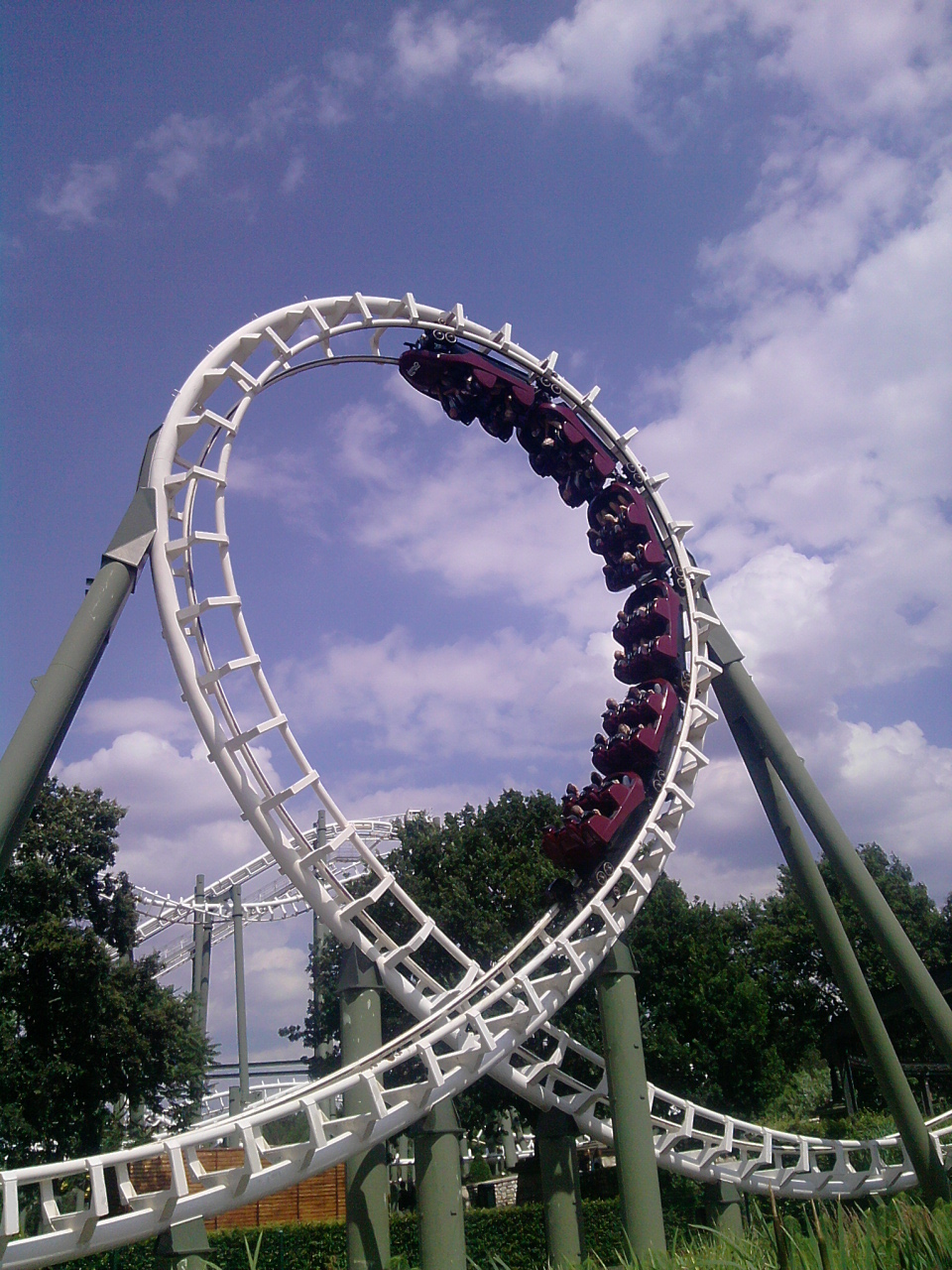 Big Loop in the loop